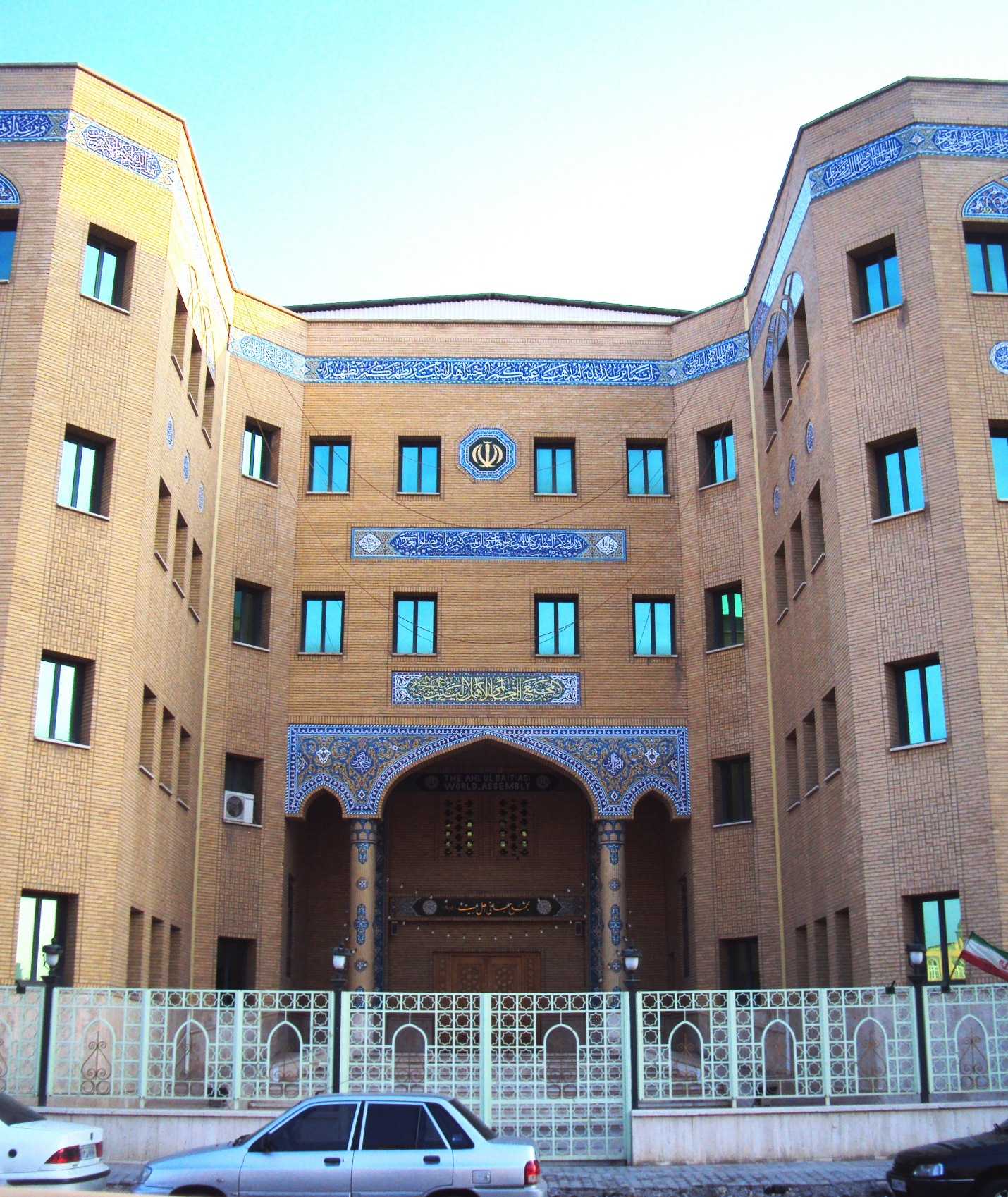 Ahl-ul-Bait International Community